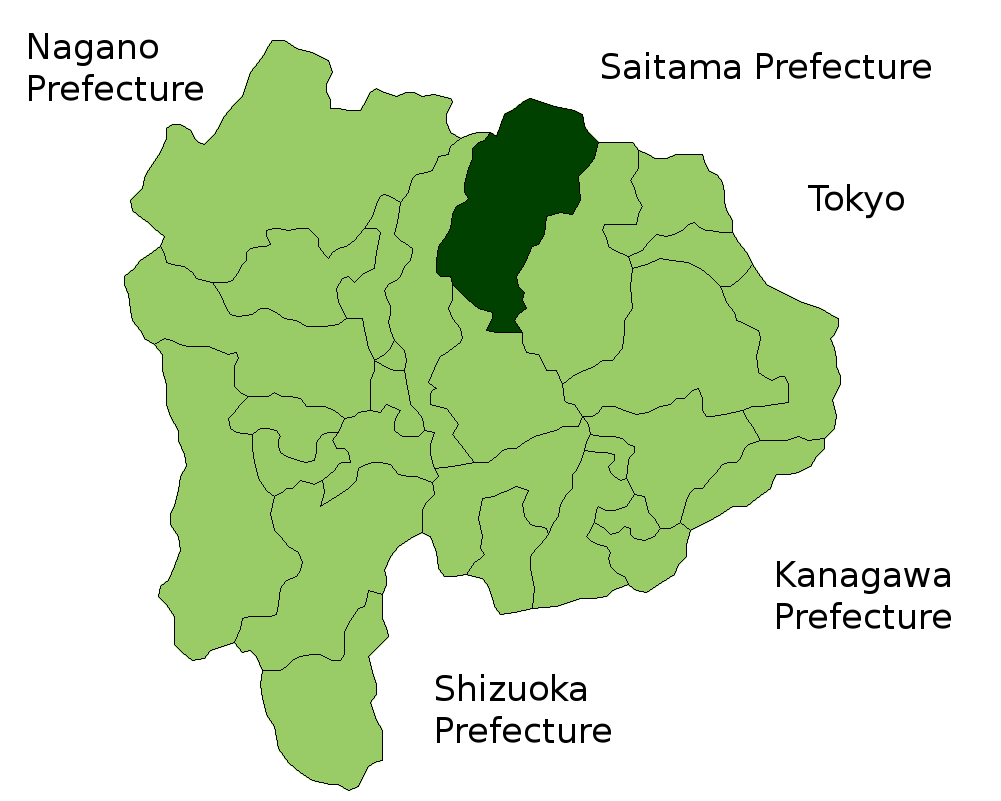 Location Map of Yamanashi in Yamanashi Prefecture, Japan